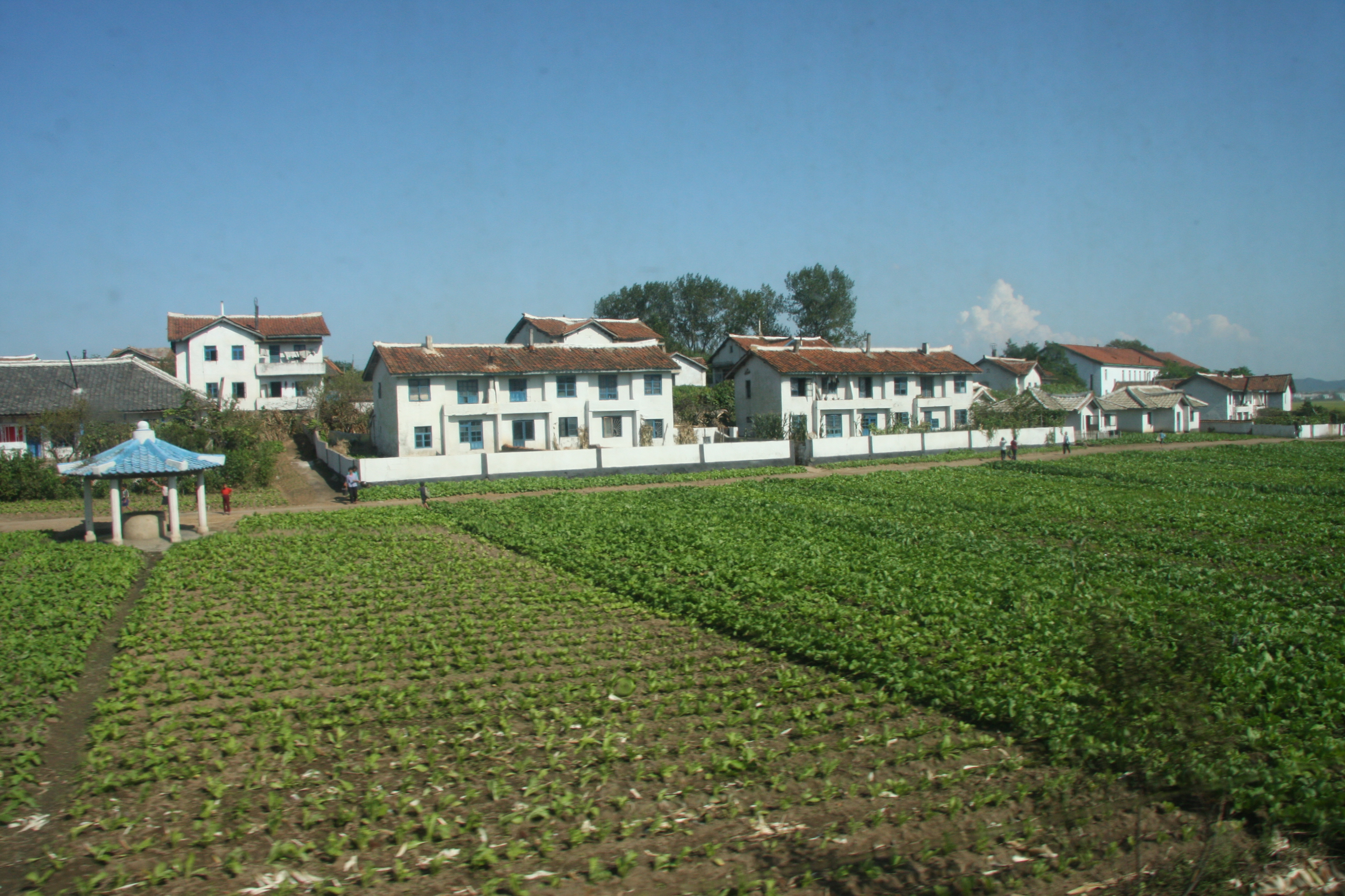 Northern Countryside in North Korea.